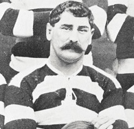 Bill Cunningham (1874—1927) with the 1904 Auckland rugby union team that faced the British Isles.